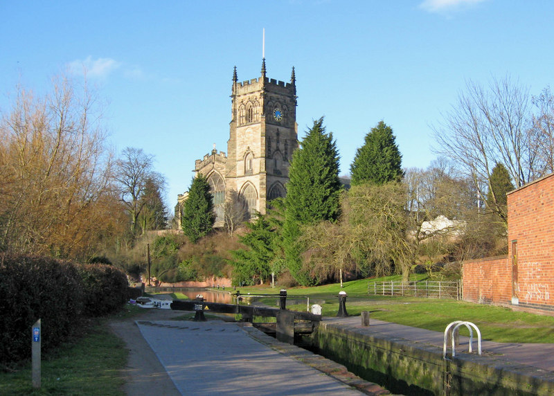 St. Mary's Church seen from Kidderminster Lock The lock is on the Staffordshire & Worcestershire Canal, which passes through Kidderminster. St. Mary's & All Saints' is the largest parish church in Worcestershire, and dates mainly from the 15th and 16th centuries.